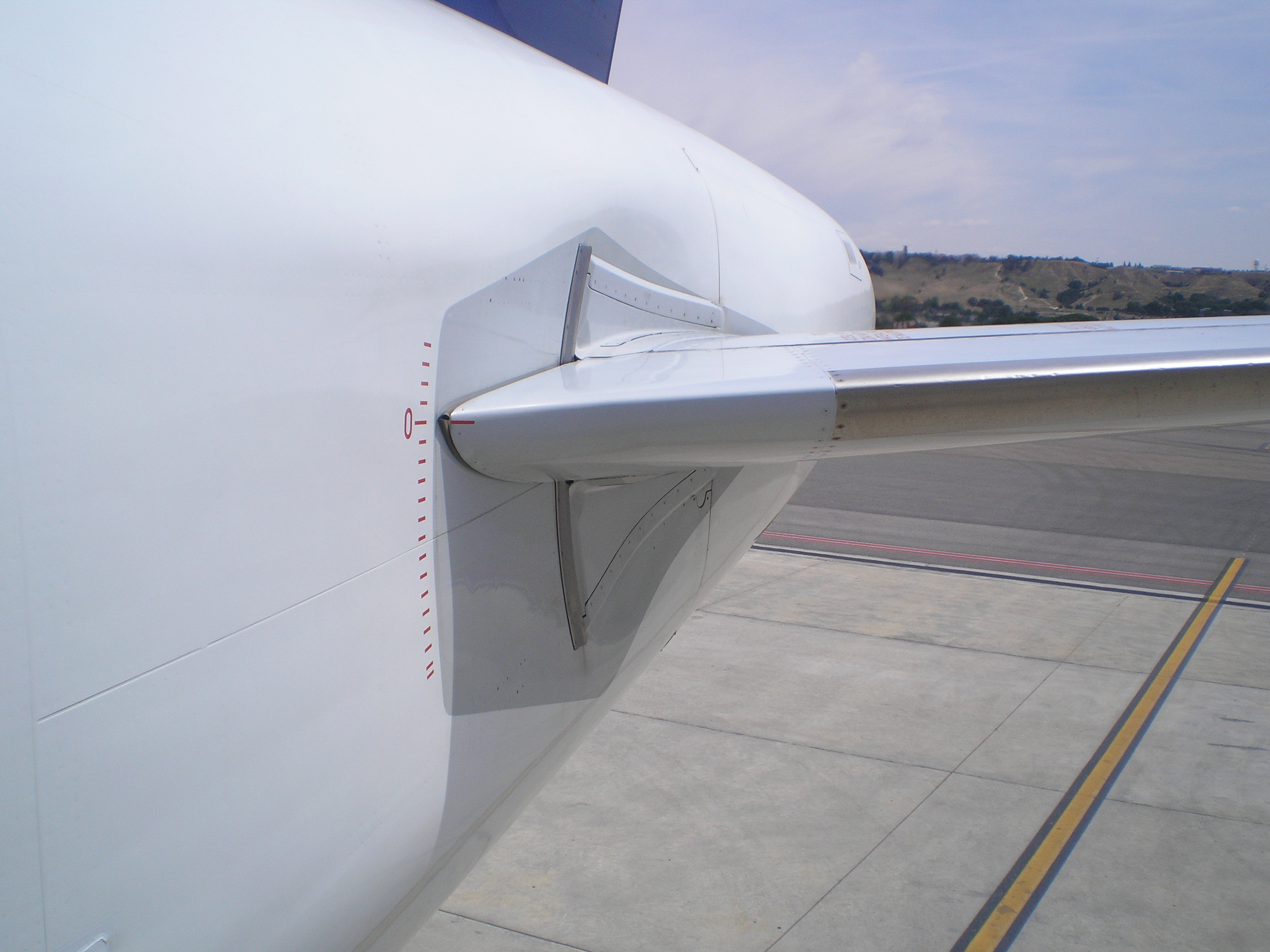 Horizontal Stabilizer of an Airbus A320.